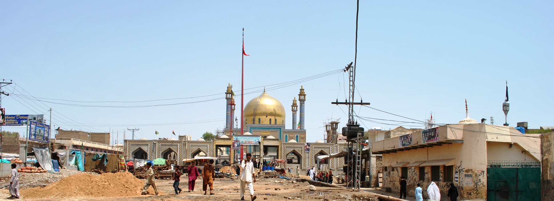 Tomb of Lal Shahbaz Qalandar This is a photo of a monument in Pakistan identified as the SD-U-6